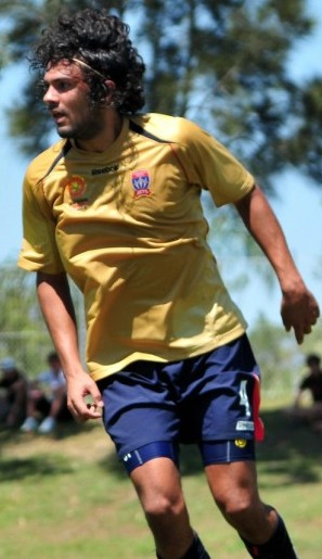 Nikolai Topor-Stanley playing a trial game for Newcastle Jets against Central Coast Mariners.